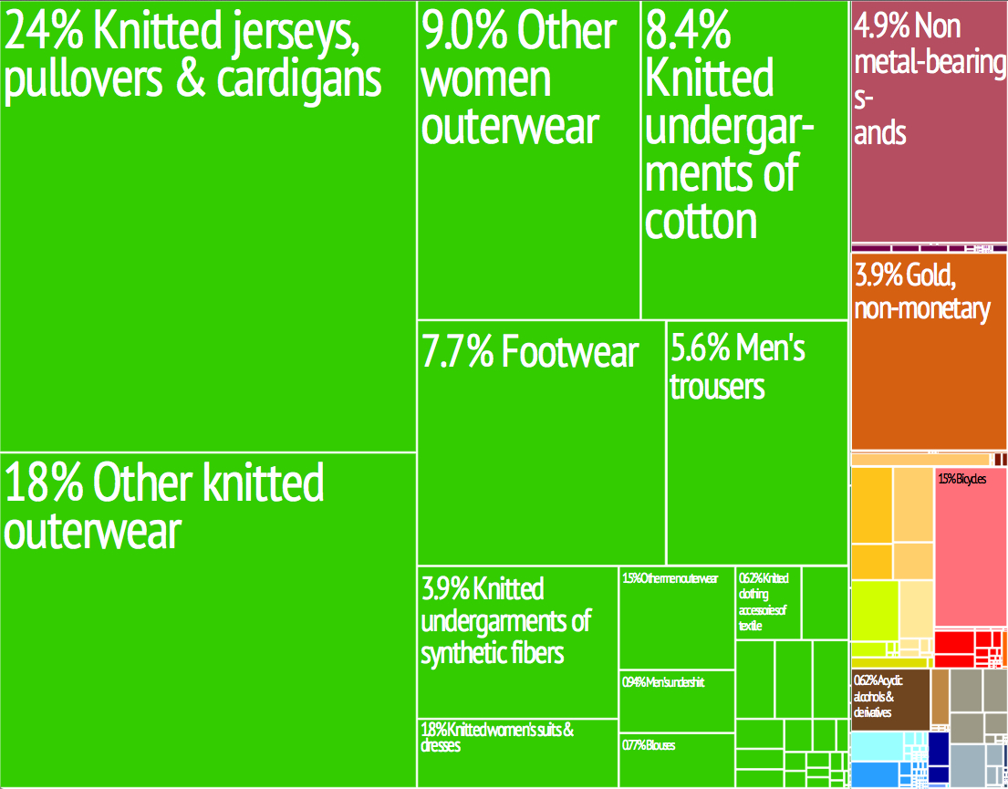 Export Trading Treemap. From MIT/Harvard Atlas of Economic Complexity